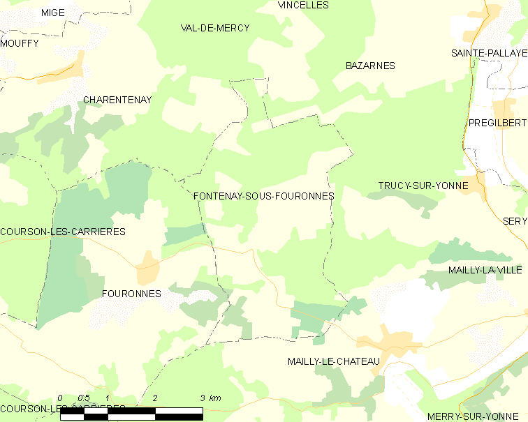 Map of French municipality Fontenay-sous-Fouronnes